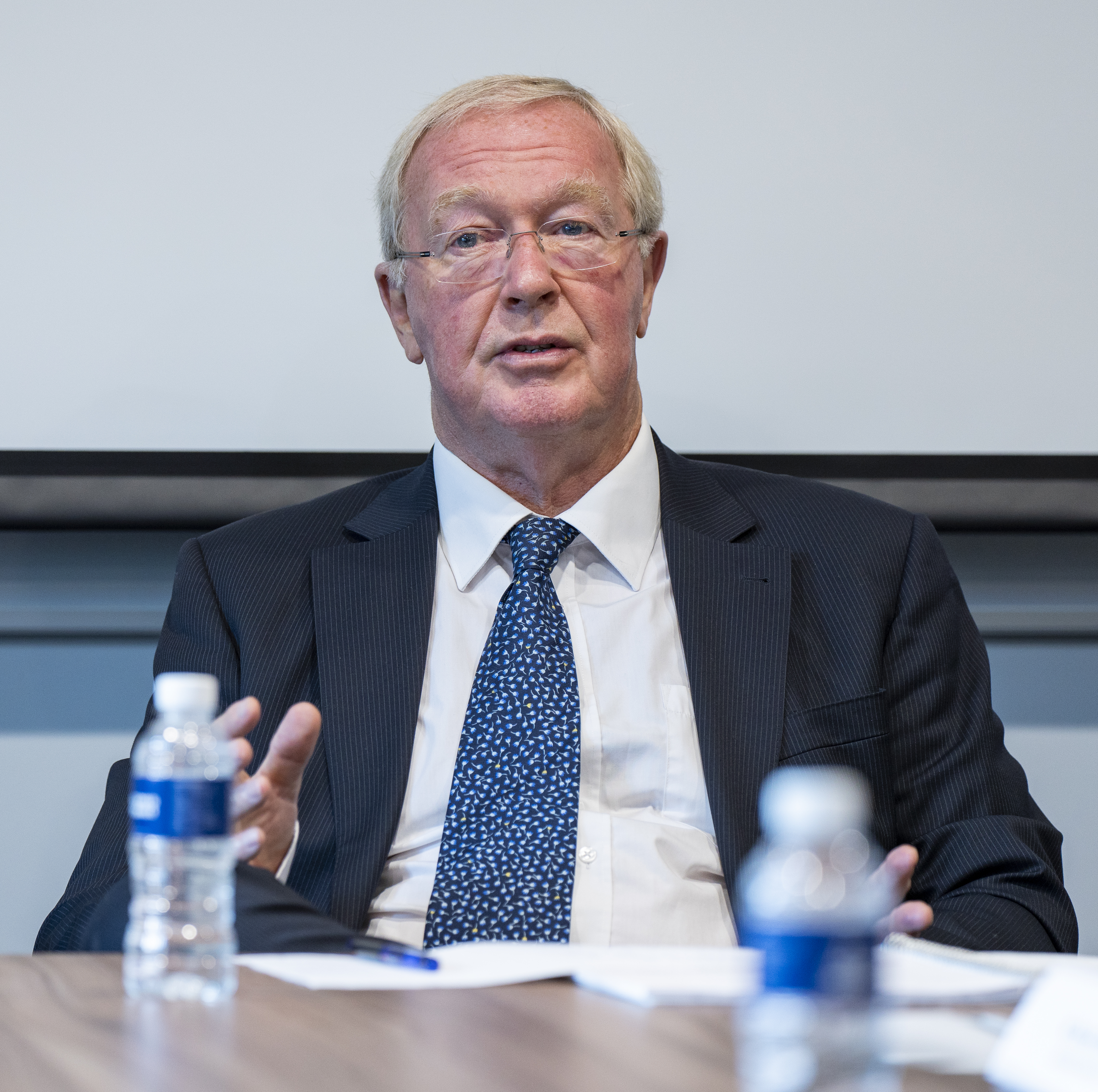 Judge Howard Morrison QC 2018 Singapore Management University School of Law